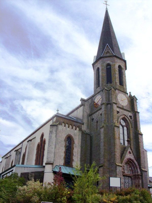 church theley